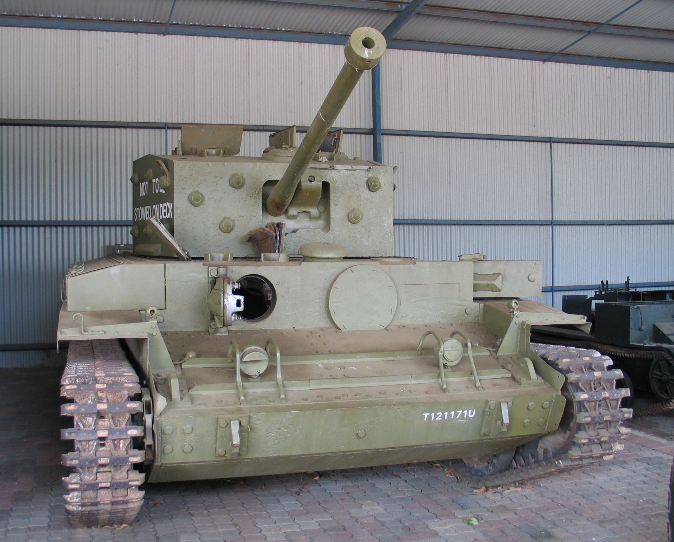 Cruiser Tank Mk VIII Cromwell Mk I in Royal Australian Armoured Corps Tank Museum, Puckapunyal, Australia. This vehicle is the only Cromwell tank sent to Australia.